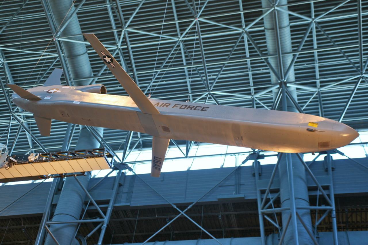 This is the AGM-86B, the second version of the U.S. Air Force's air-launched cruise missile (ALCM) and built by Boeing. Launched from B-52 bombers, the missile had a nuclear warhead, a turbofan jet engine, a range of approximately 2,400 km (1,500 miles), and two navigation systems that enabled it to fly close to the ground making it difficult for enemy radars to pick up. First deployed in 1982, some of the missiles began to be converted in 1986 to the AGM-86C with a conventional warhead and a Global Positioning System-aided navigation system. This missile was the second flight model tested and was transferred to NASM by the U.S. Air Force in 1982. Steven F. Udvar-Hazy Center.